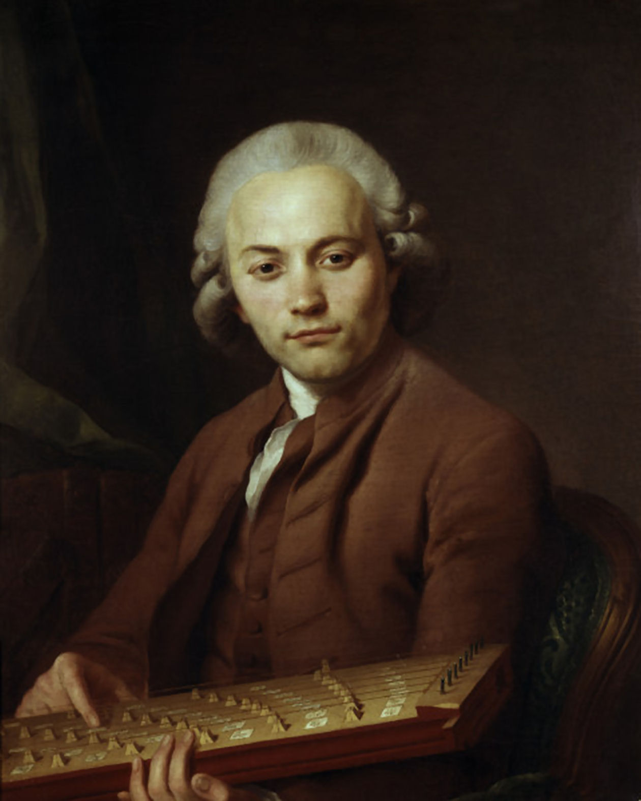 Portrait of Georg Joseph Vogler (Abbé Vogler)